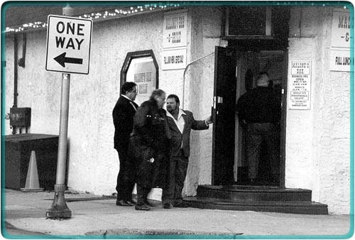 Philly cop turned mobster turned government informant Ron Previte (middle) in an FBI surveillance Photo.